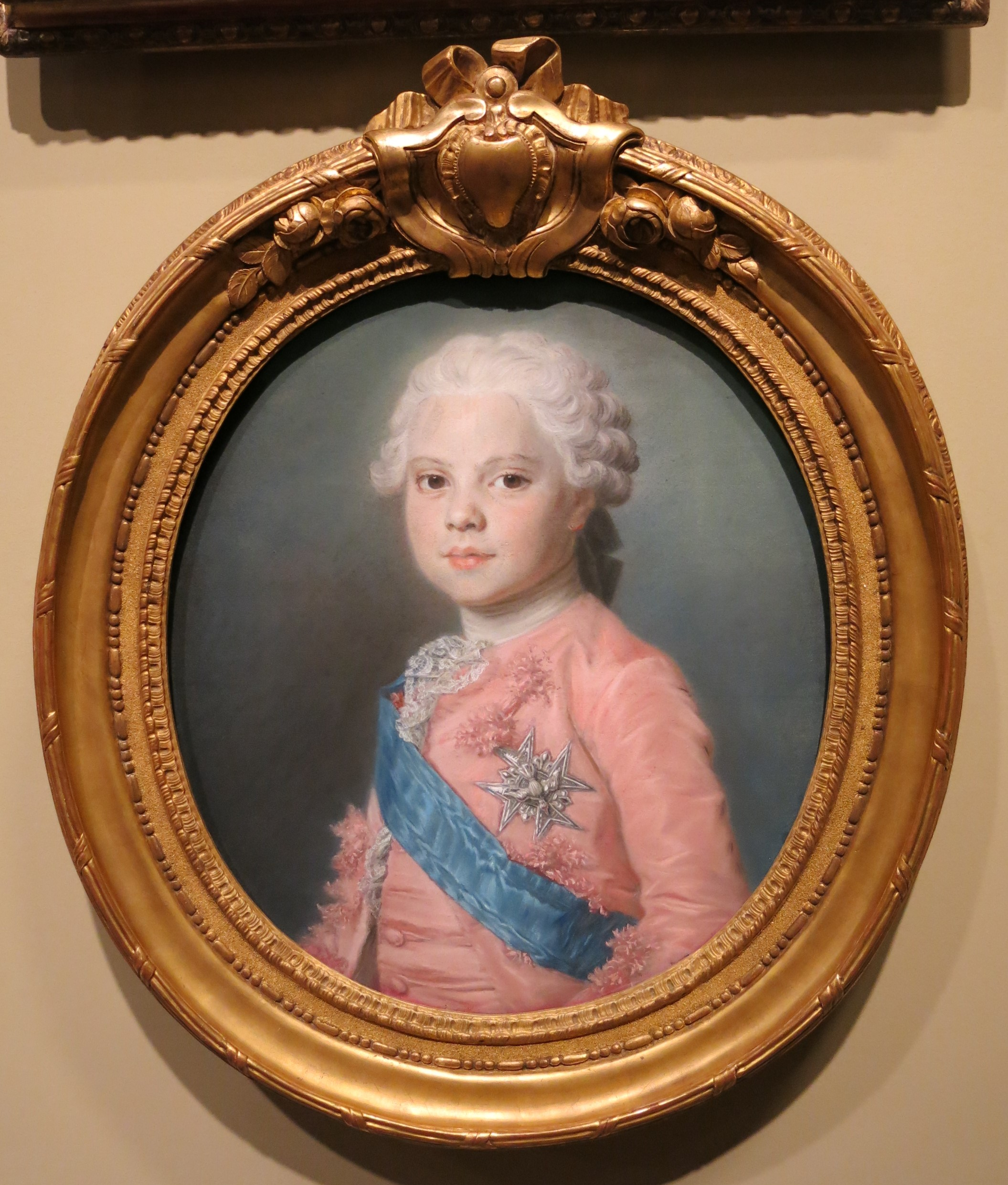 Depicted person: Louis Stanislas Xavier de France (1755–1824), future Louis XVIII, King of France and Navarre